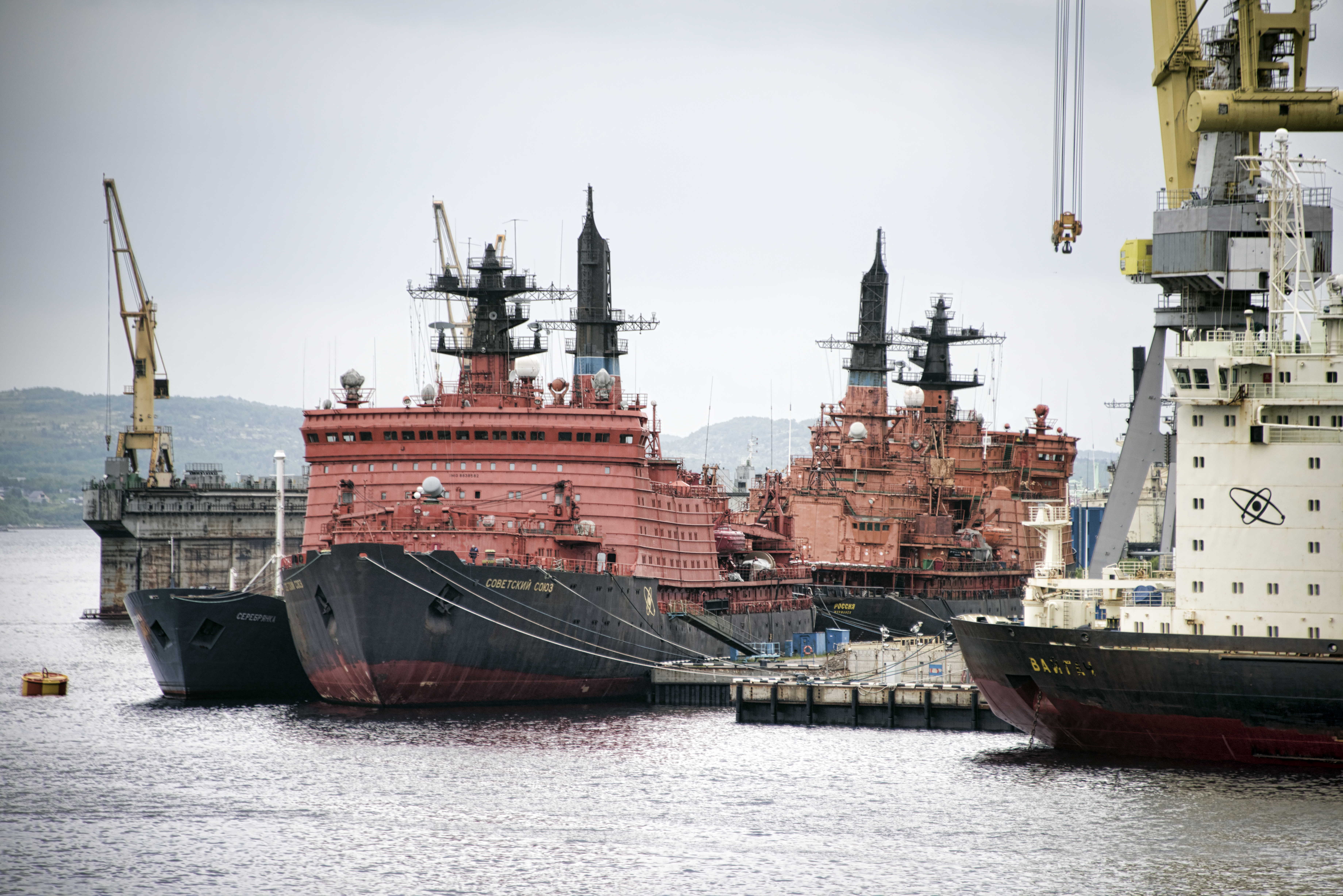 NORTH POLE North Pole Keep